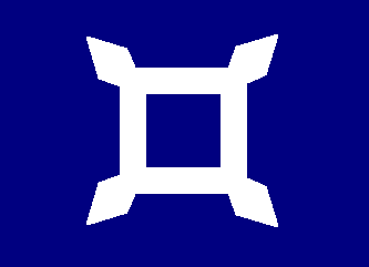 X Corps, Department of South, 2nd Division Badge